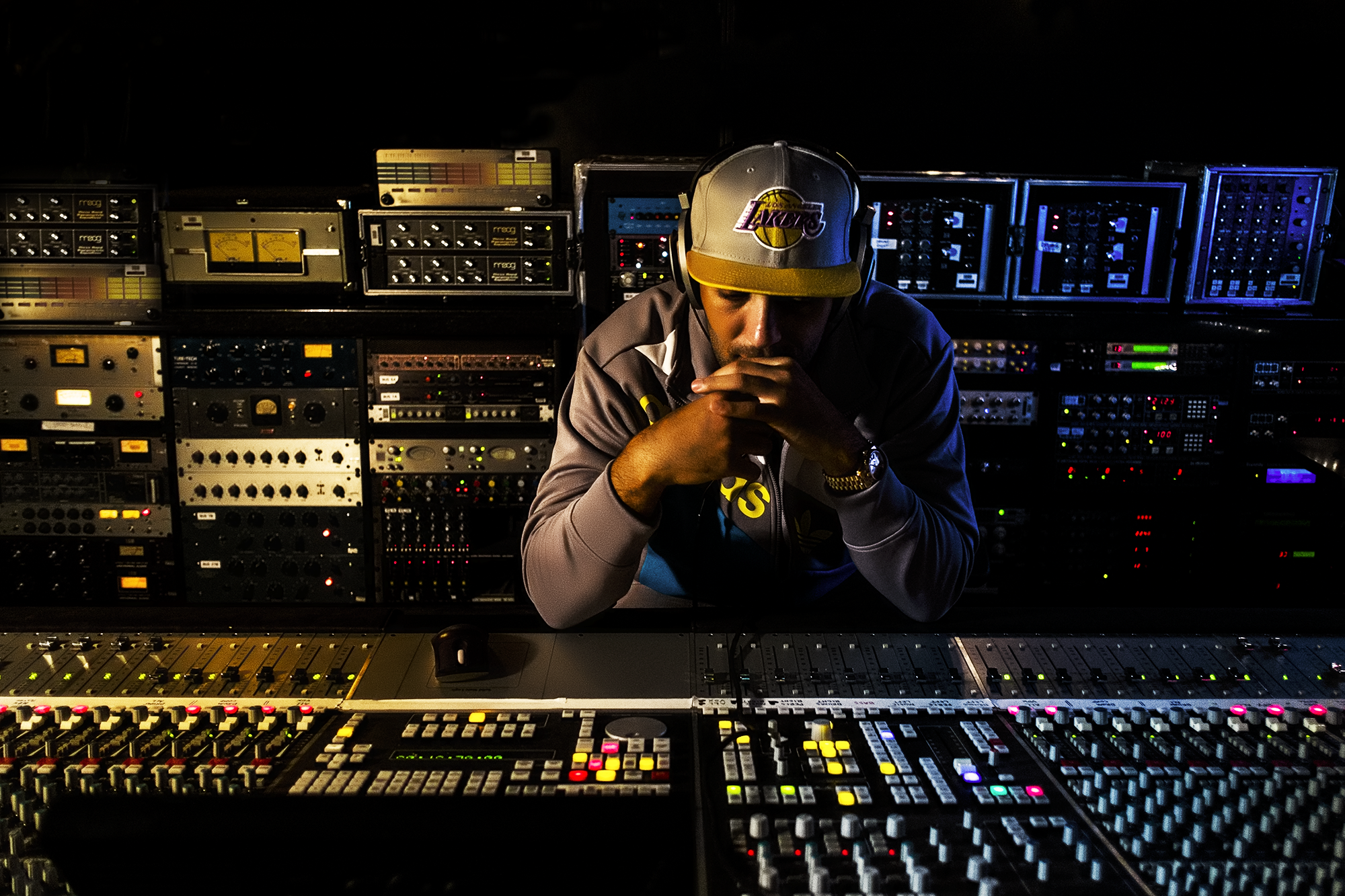 Jaycen Joshua working in his studio in Los Angeles, CA.